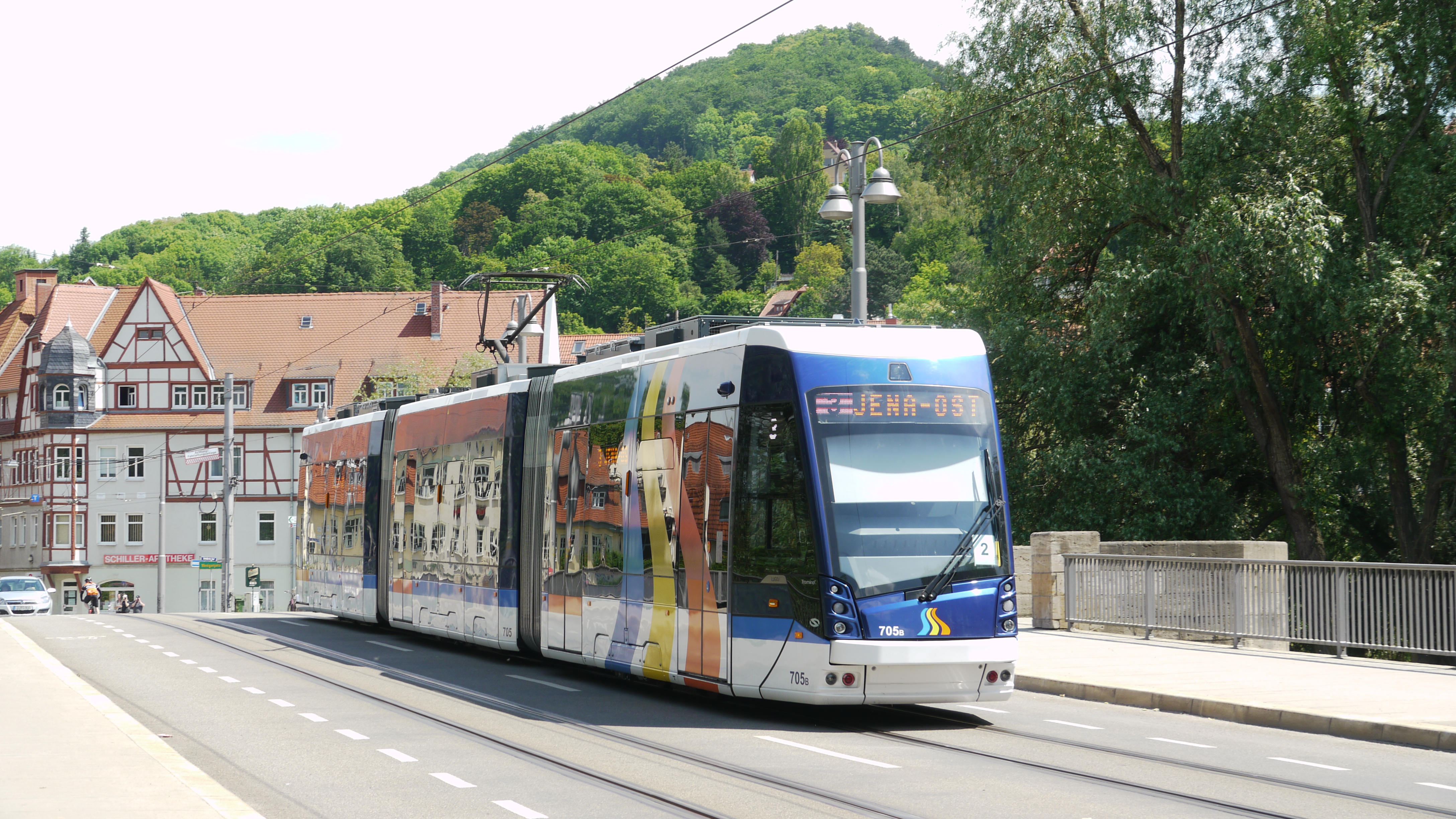 Solaris Tramino 705 on its way to Jena Ost, crossing the Saale on the Camsdorfer Bridge.